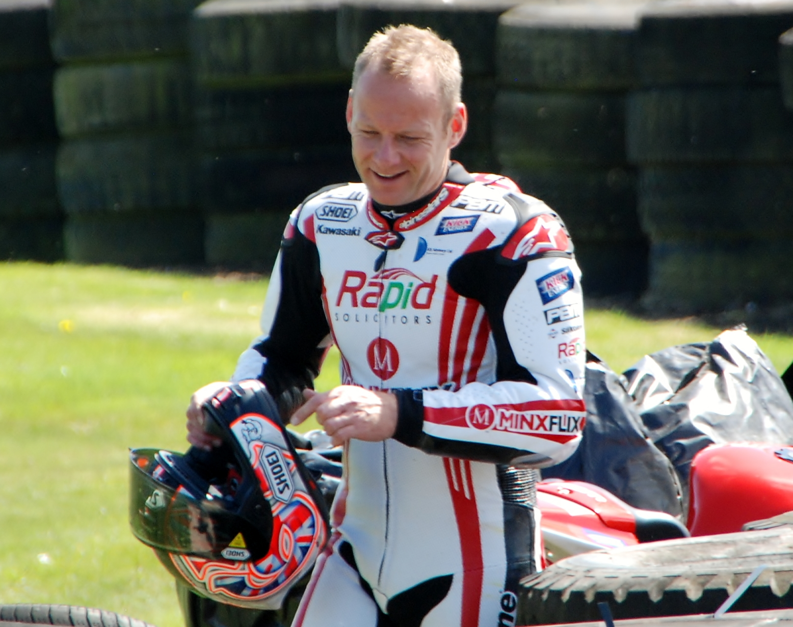 Shane Byrne at Oulton Park British Superbike meeting in 2013